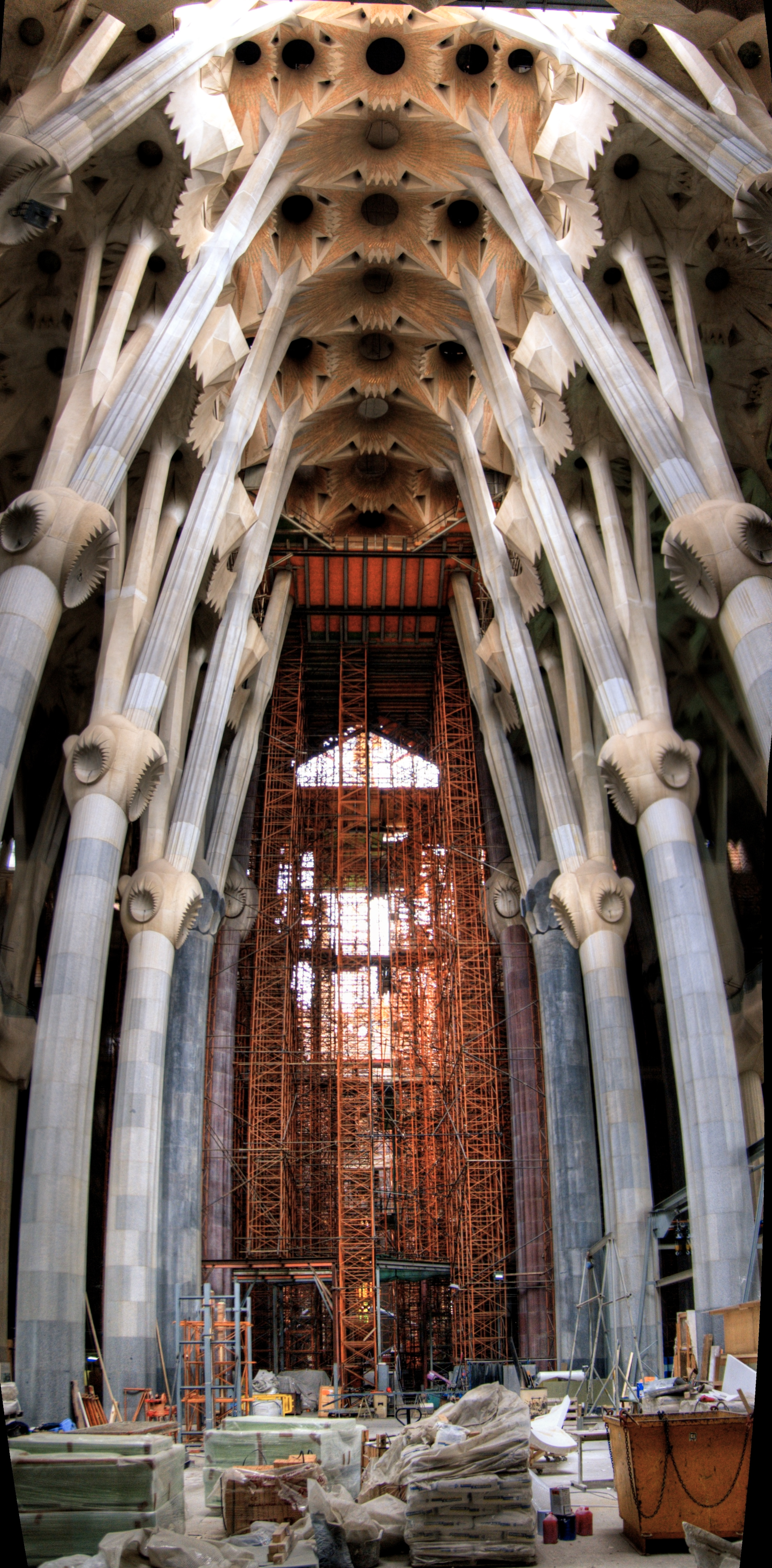 La sagrada familia, december 2008